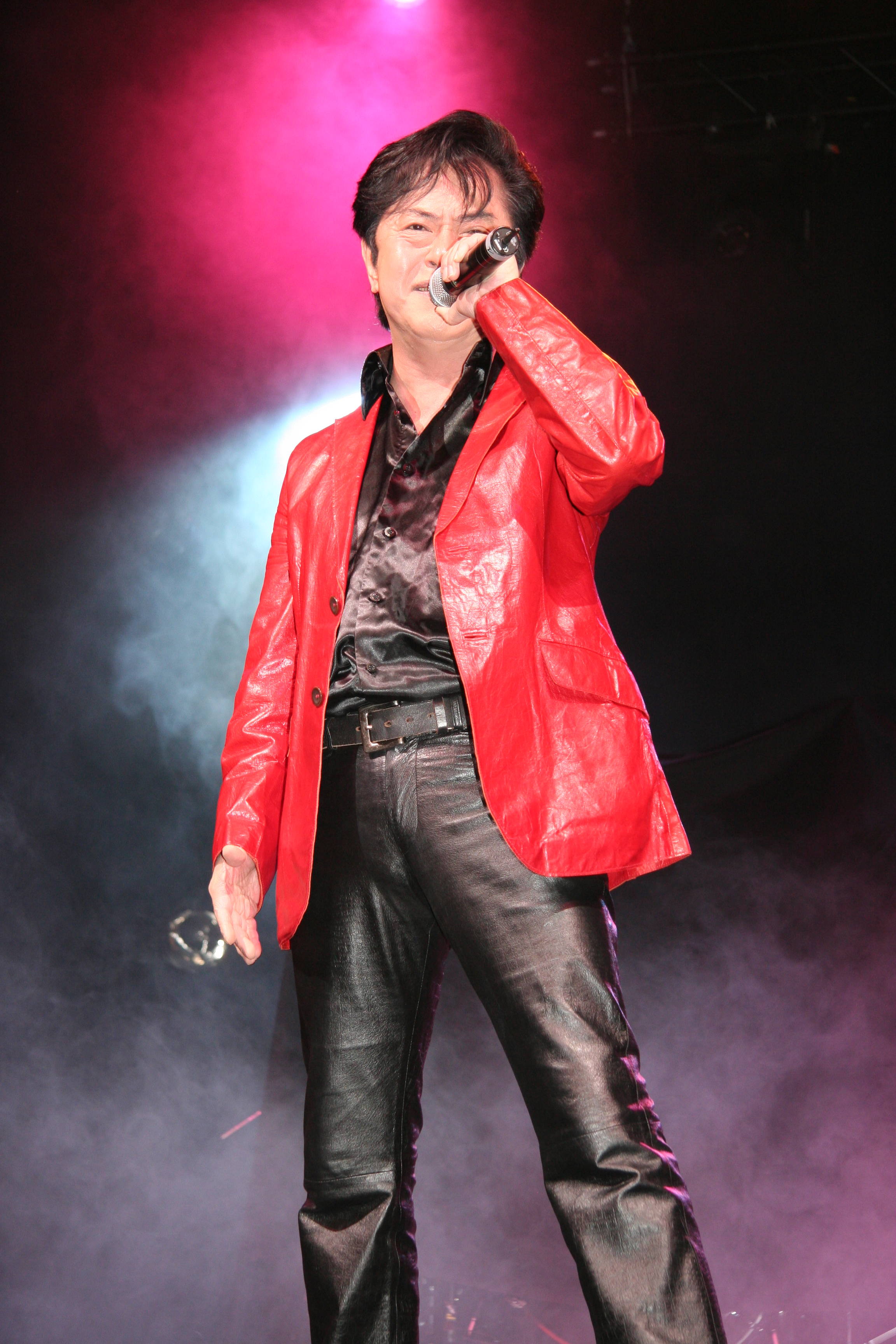 Ichiro Mizuki live at Japan Expo 2007 (Paris, France).